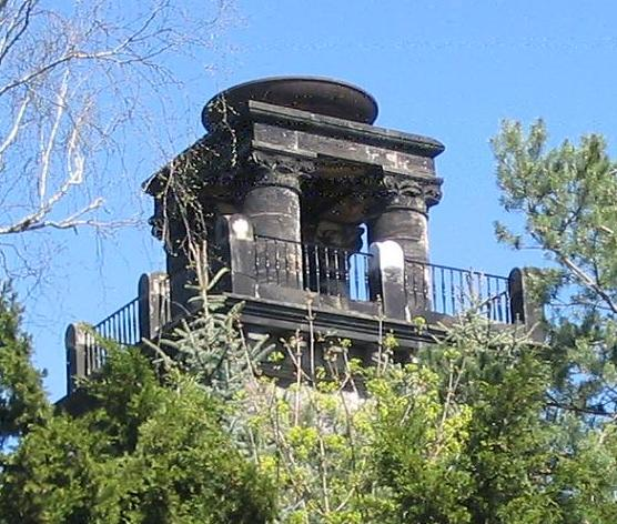 Top of the Bismarckturm (15 meters), opened in 1901, upon Hubertusberg, a hill with a height of total 142 meters nearby Wörpen. Wörpen is a municipality in the Nature park Fläming in the district Wittenberg, state Saxony-Anhalt, Germany.